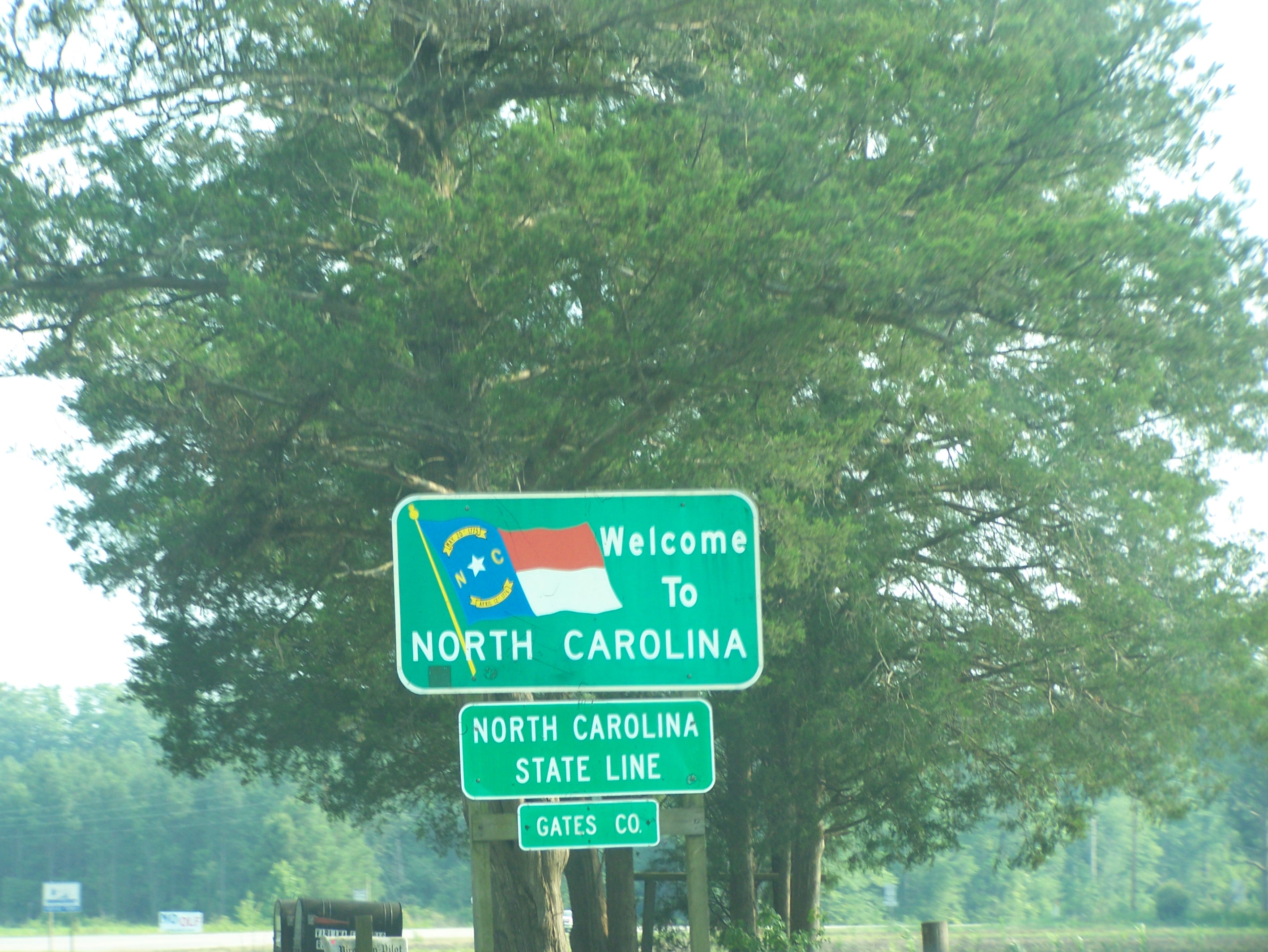 A welcomeing sign at the NC state border